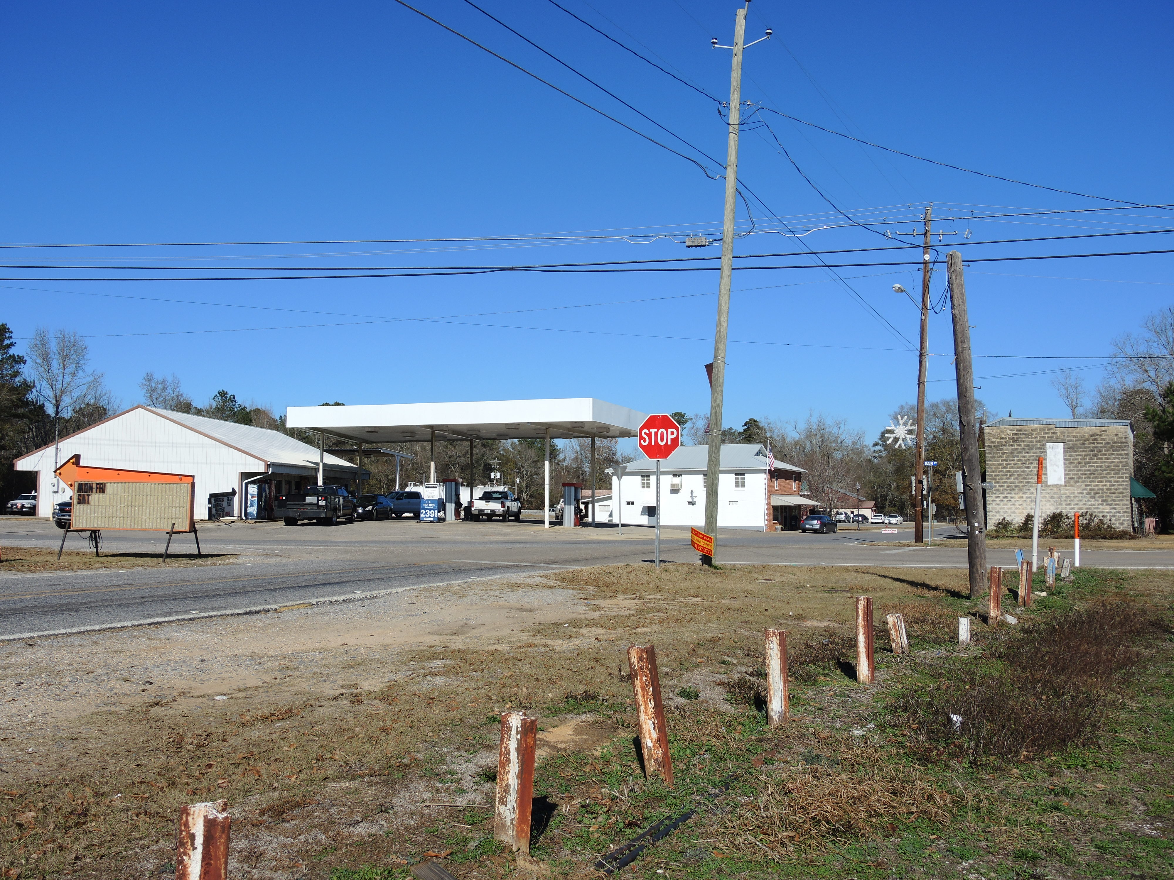 Looking north on Old Mill Creek Road across Main Street, Enterprise, Clarke County, Mississippi.